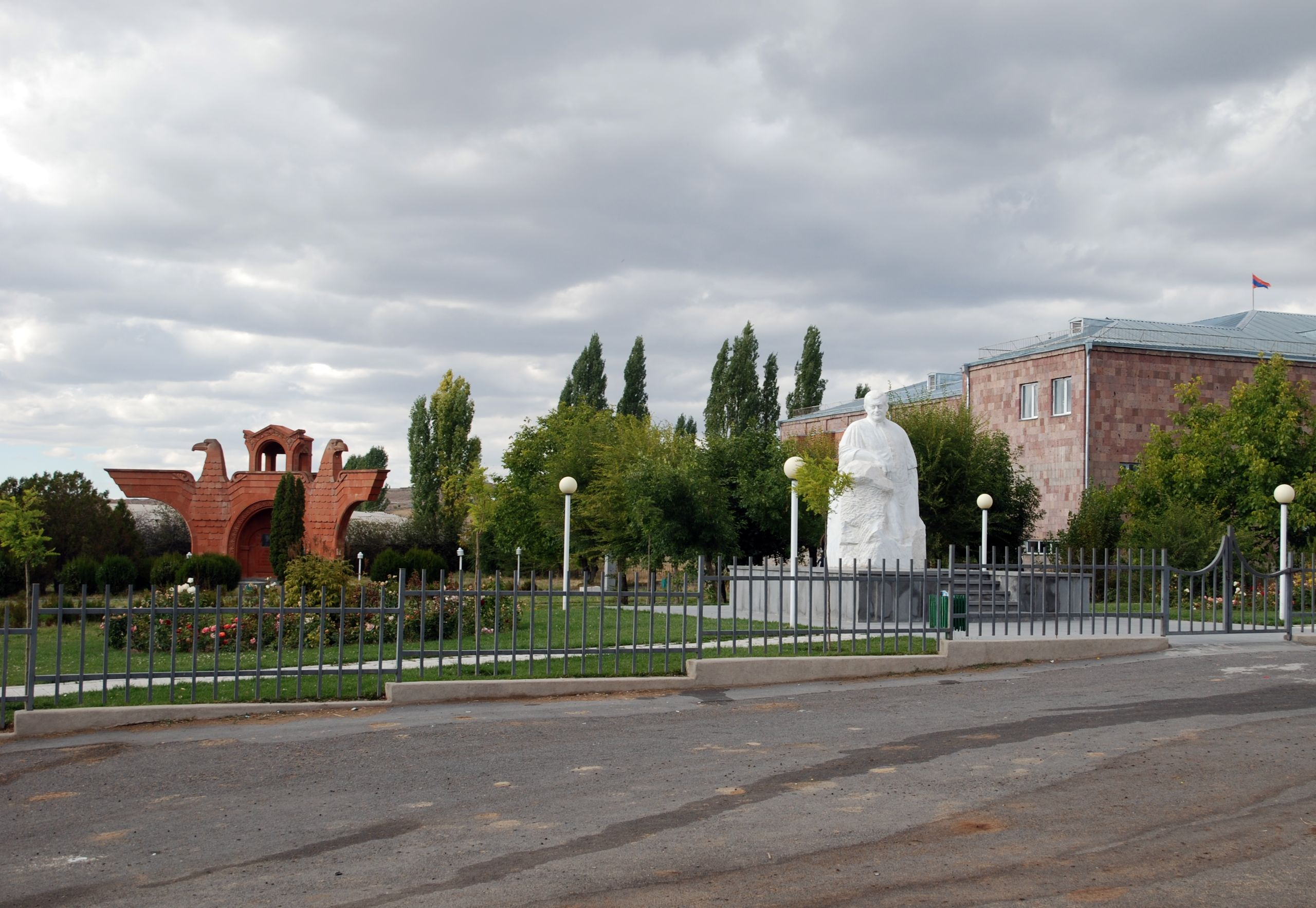 Irind, square